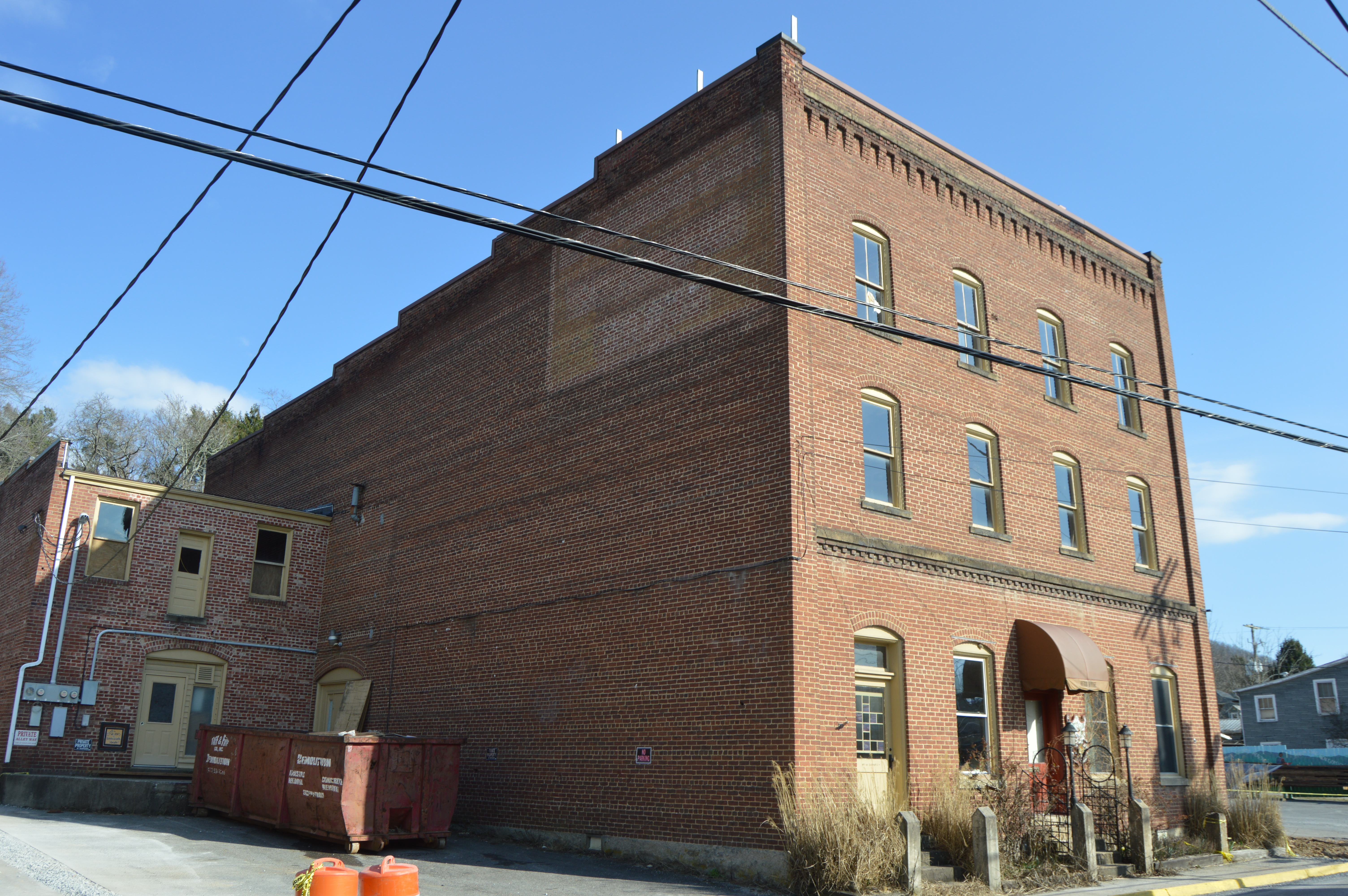 Front and northern side of the former Marion warehouse of R. T. Greer and Company, located at 107 Pendleton Street in Marion, Virginia, United States. Built in 1916, it is listed on the National Register of Historic Places.